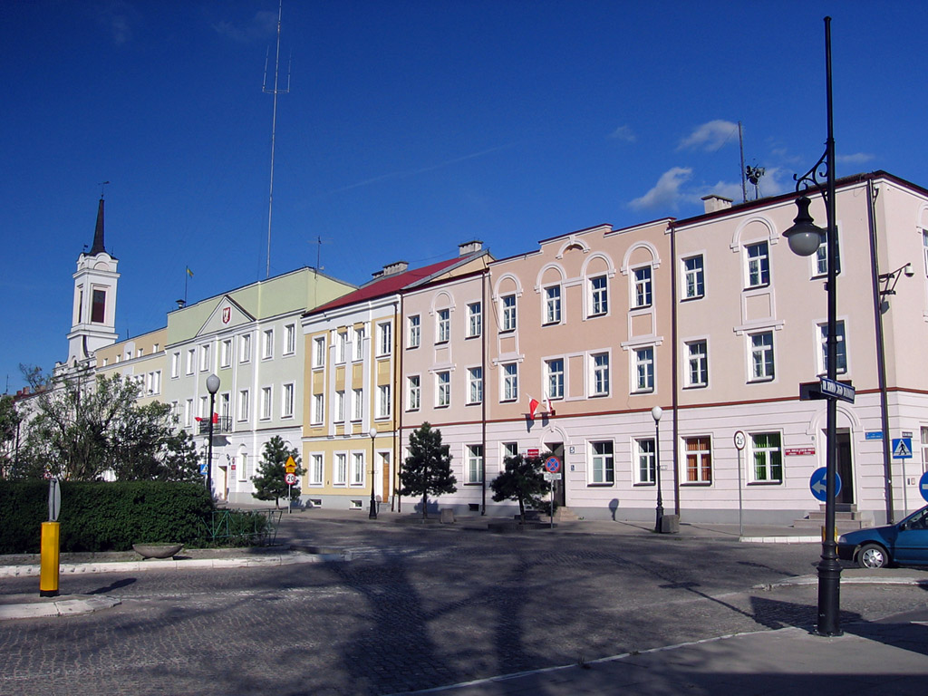 City of Ostroleka (Poland), Town Hall.